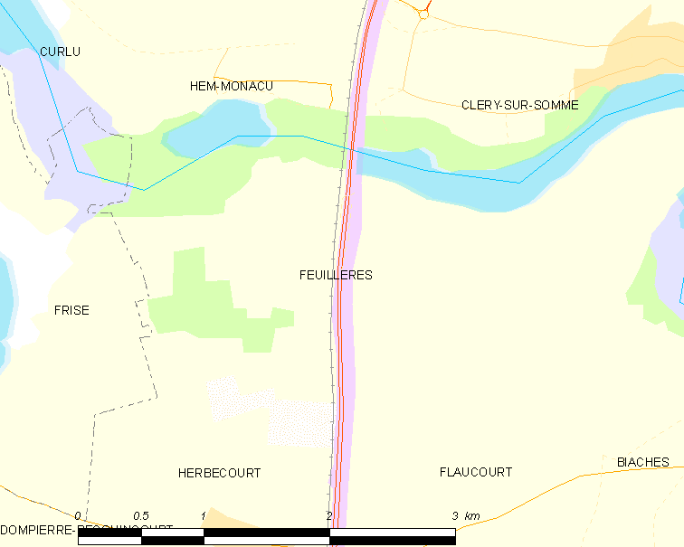 Map of French municipality Feuillères